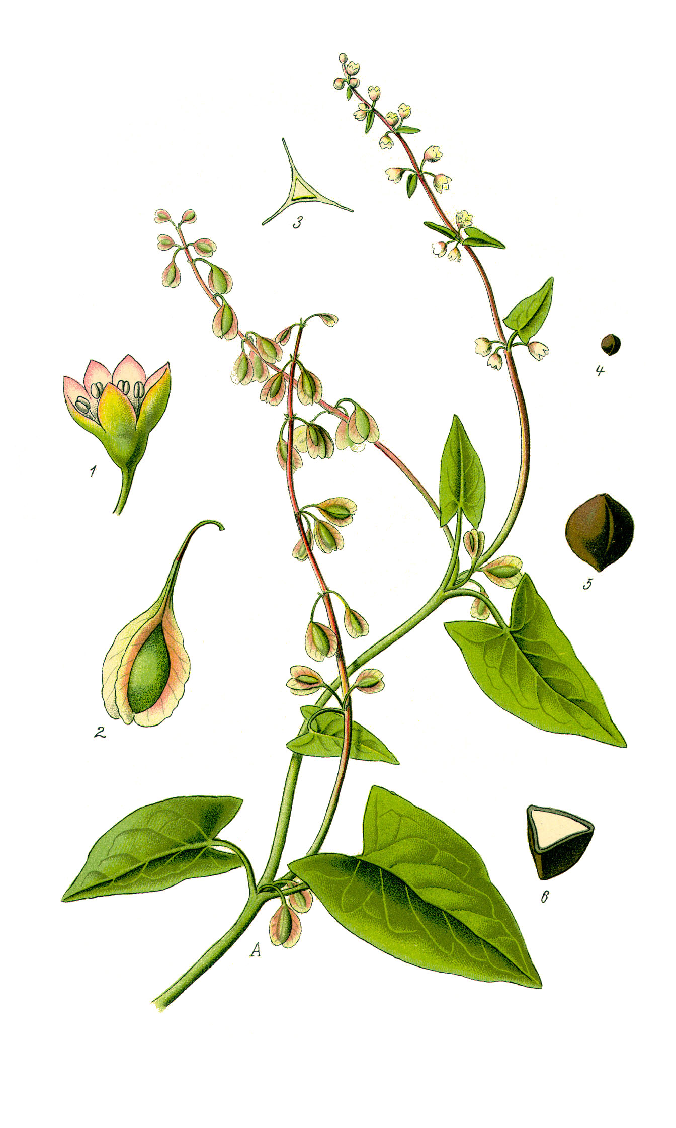 Name Fallopia dumetorum Family Polygonaceae clean up of Image:Illustration Fallopia dumetorum0.jpg